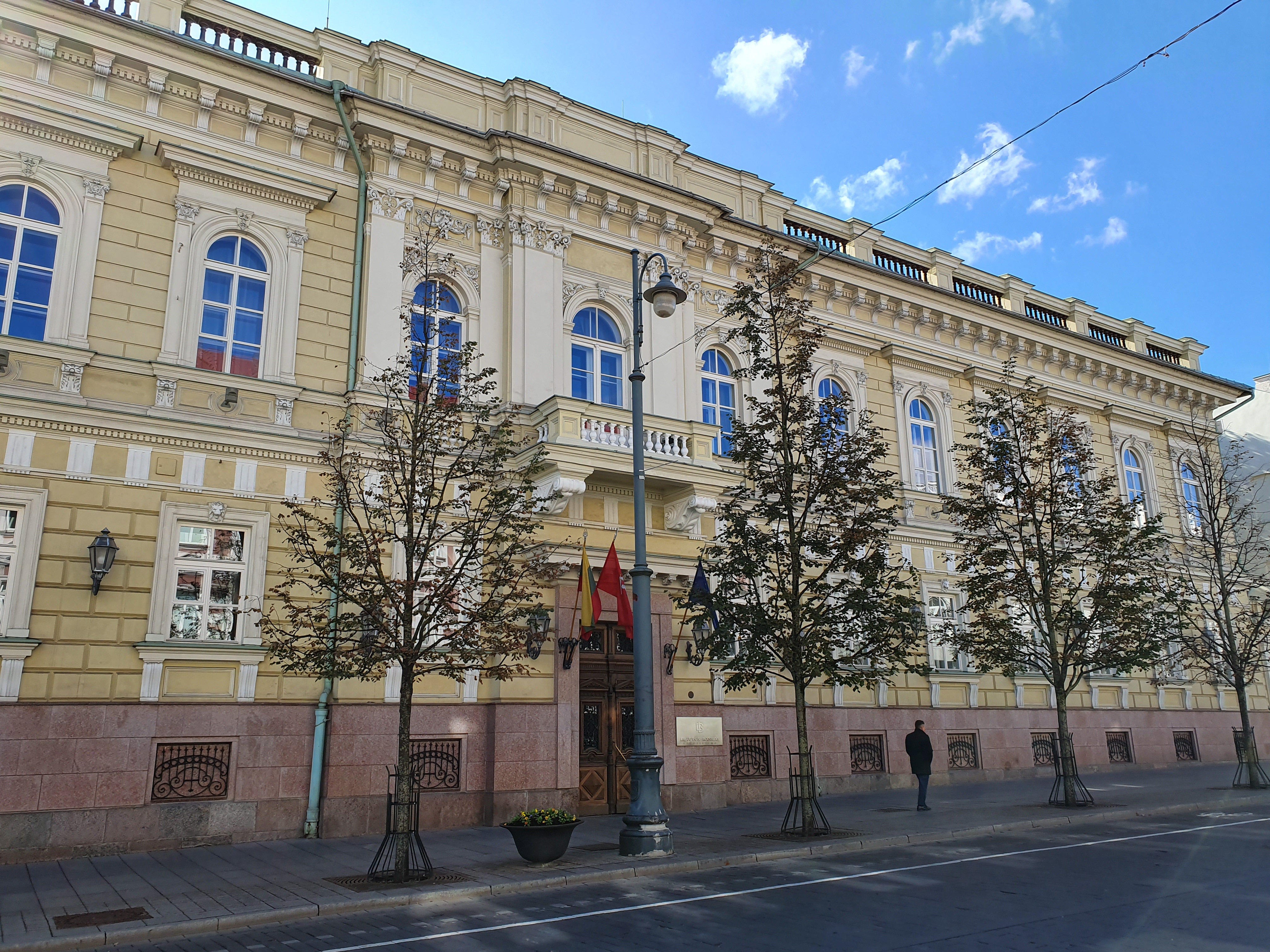 Central Office of the Bank of Lithuania in Gediminas Avenue, Vilnius.